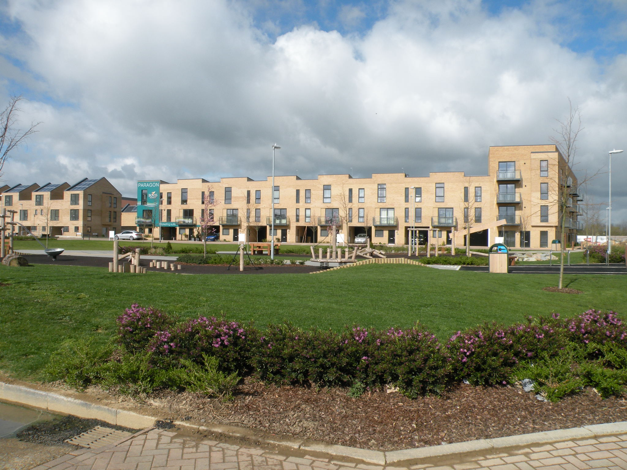 Paragon is the marketing name for a section of the Great Kneighton development in Trumpington, Cambridge, built by Bovis Homes